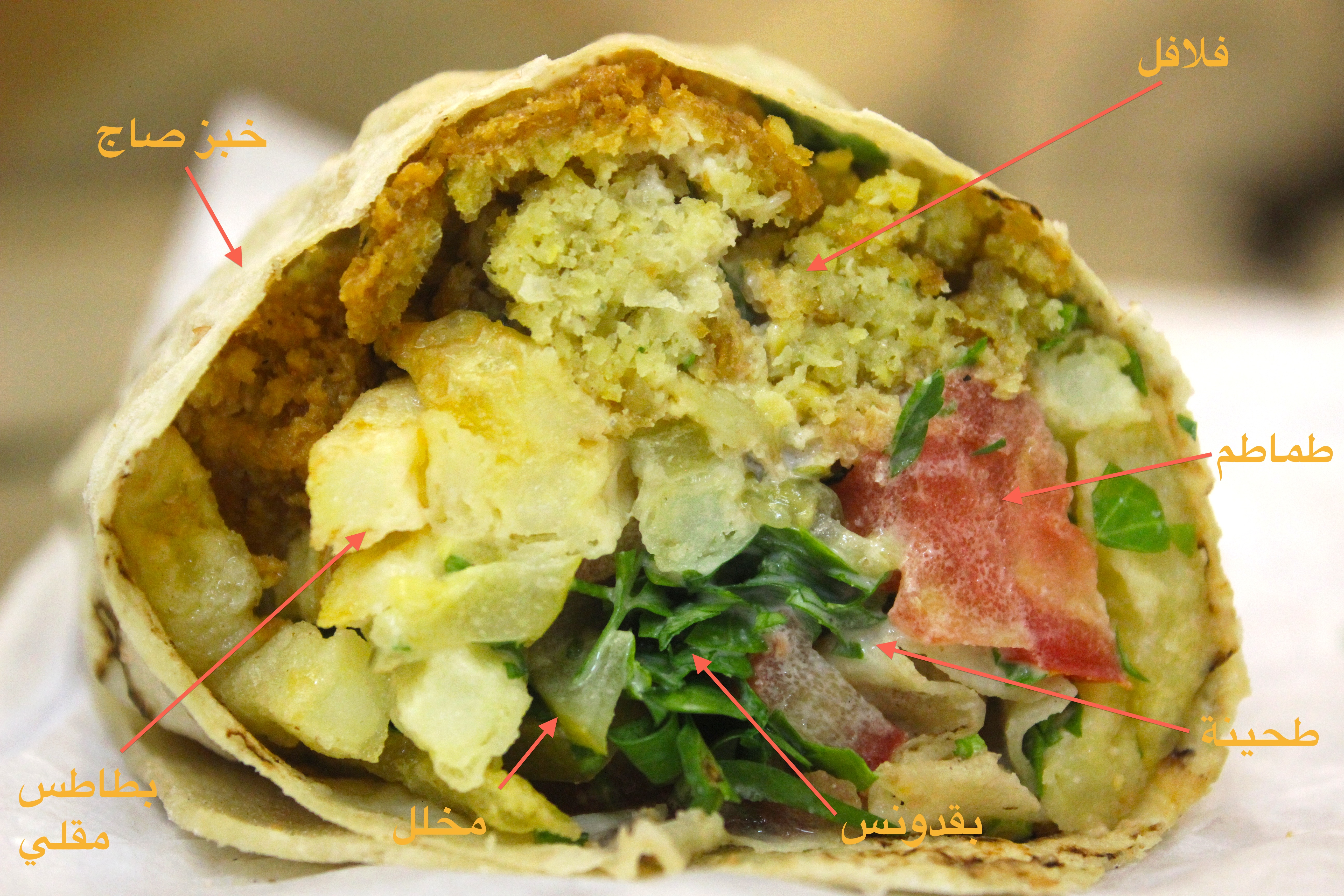 Sabbah